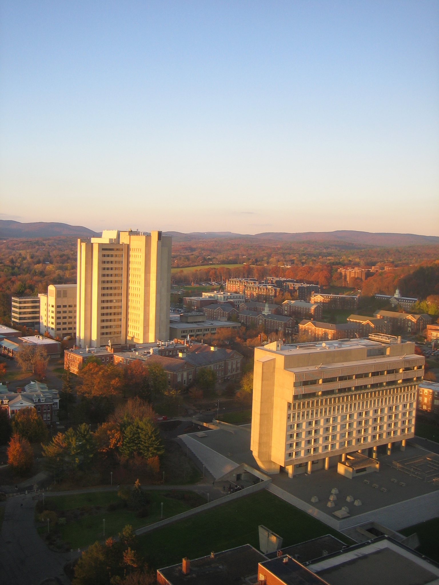 UMass at Amherst, picture taken from the W.E.B. Dubois Library